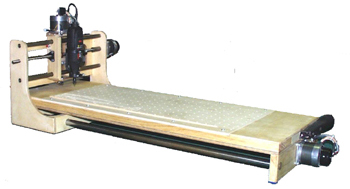 Finished router built from .